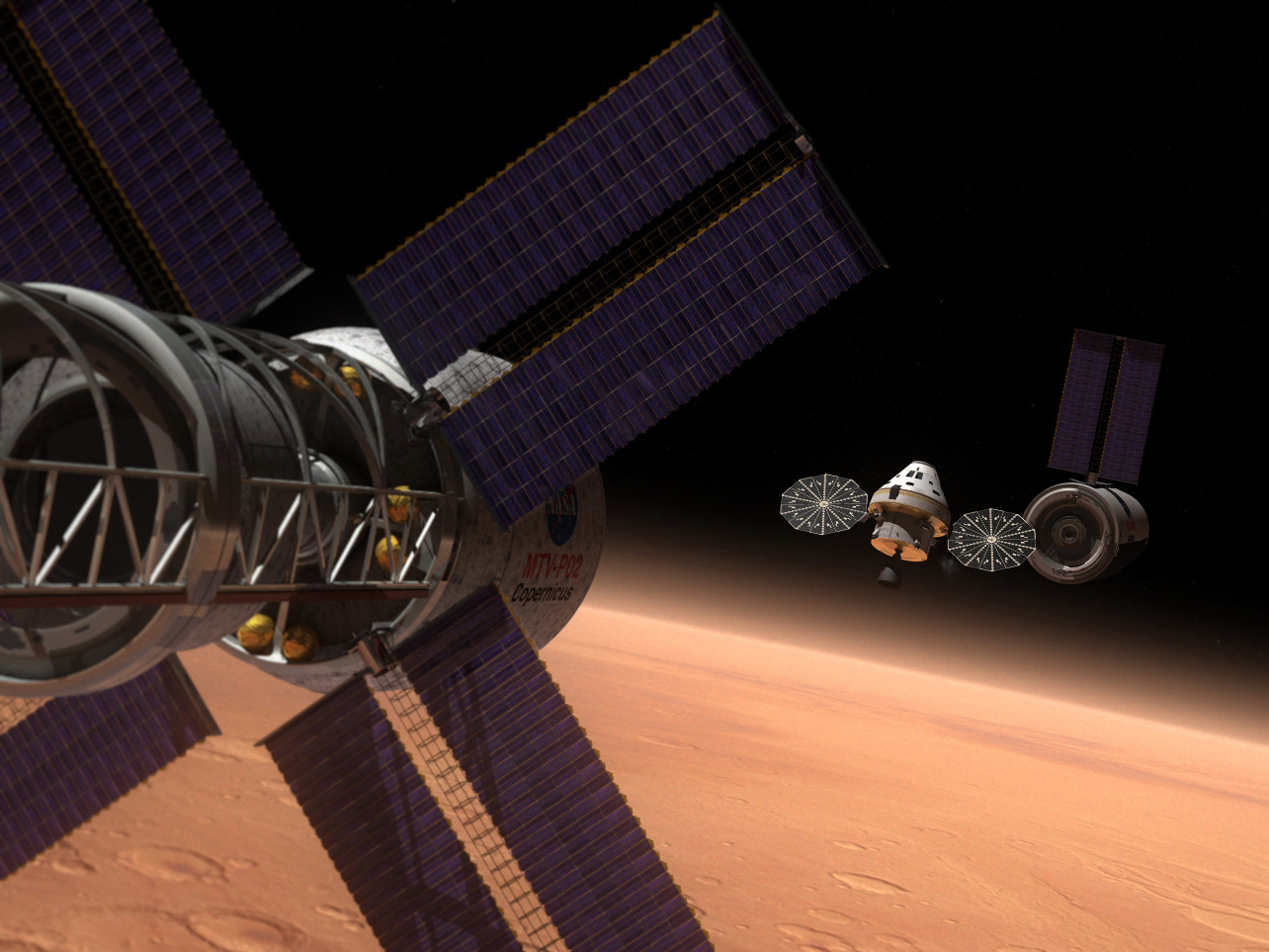 artist interpretation of the Multi Purpose Crew Vehicle in orbit to Mars.